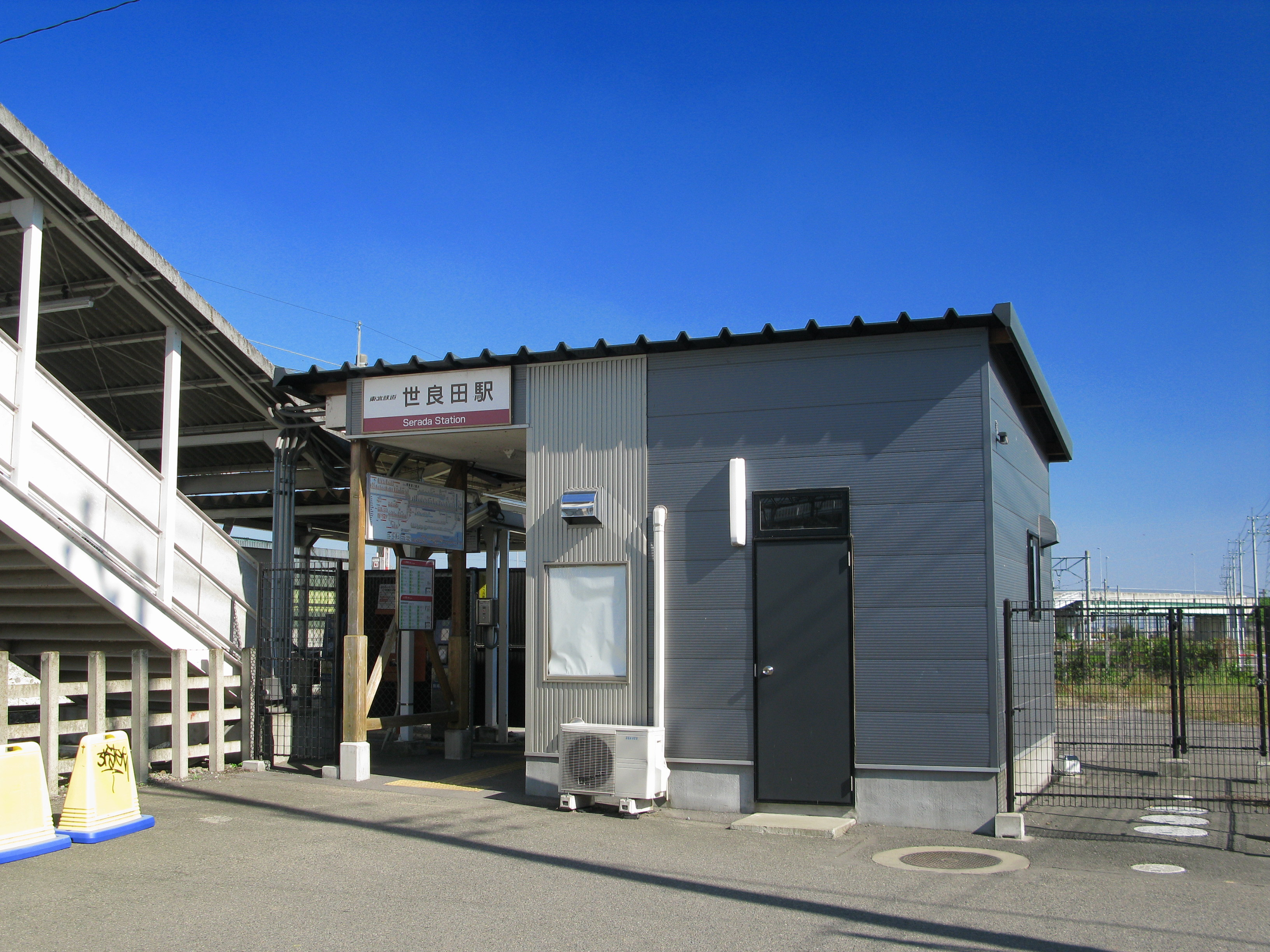 Serada Station on the Tōbu Isesaki Line in Ōta, Gunma Prefecture, Japan